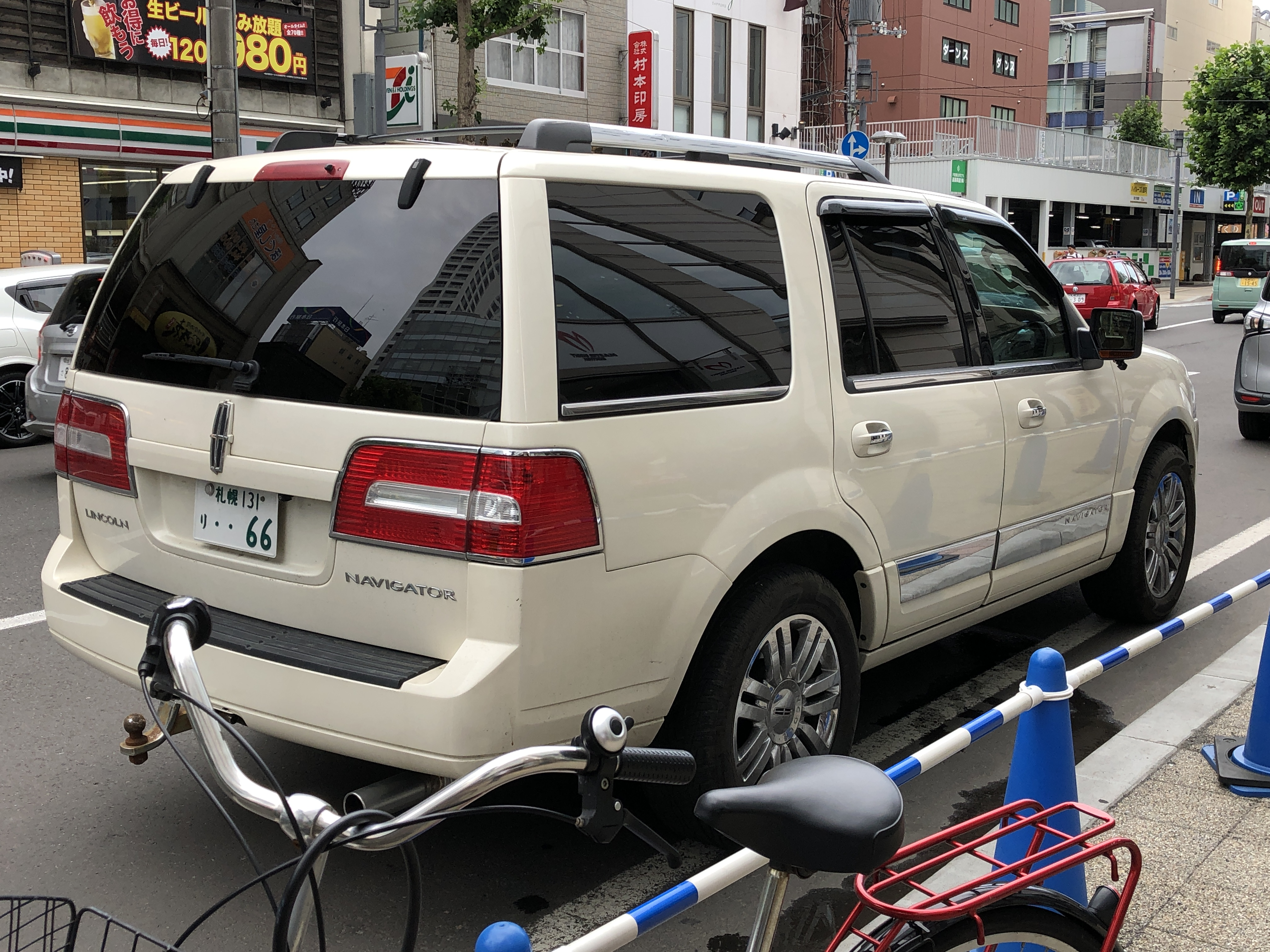 A LHD Lincoln Navigator parked in Sapporo.